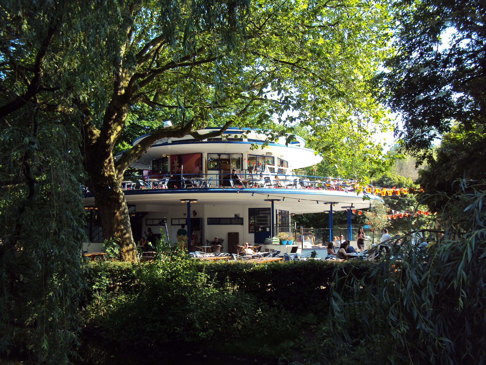 The Blauwe Theehuis ("Blue Tea House"), a 1937 Modernist pavilion in the Vondelpark in Amsterdam, the Netherlands